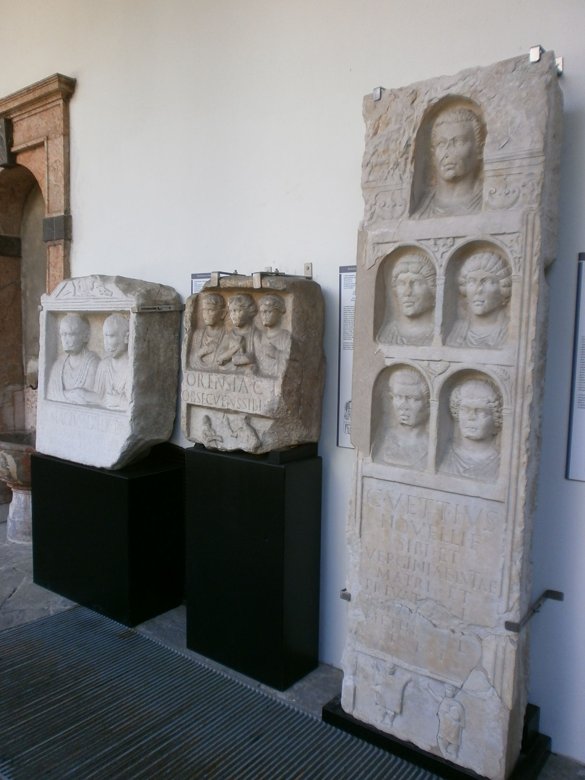 Museo archeologico milan 2 - stele funeraria metà I sec d.c. (Roman funerary stele, 1st century AD.)